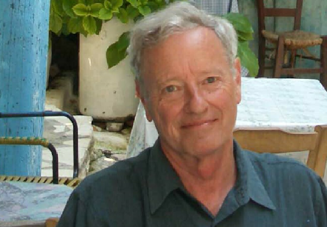 William Berg, classicist. Date of birth: August 13, 1938. Place of birth: Berkeley. Wikidata: Q96195290. Photo taken at a café in Andritsaina, Greece